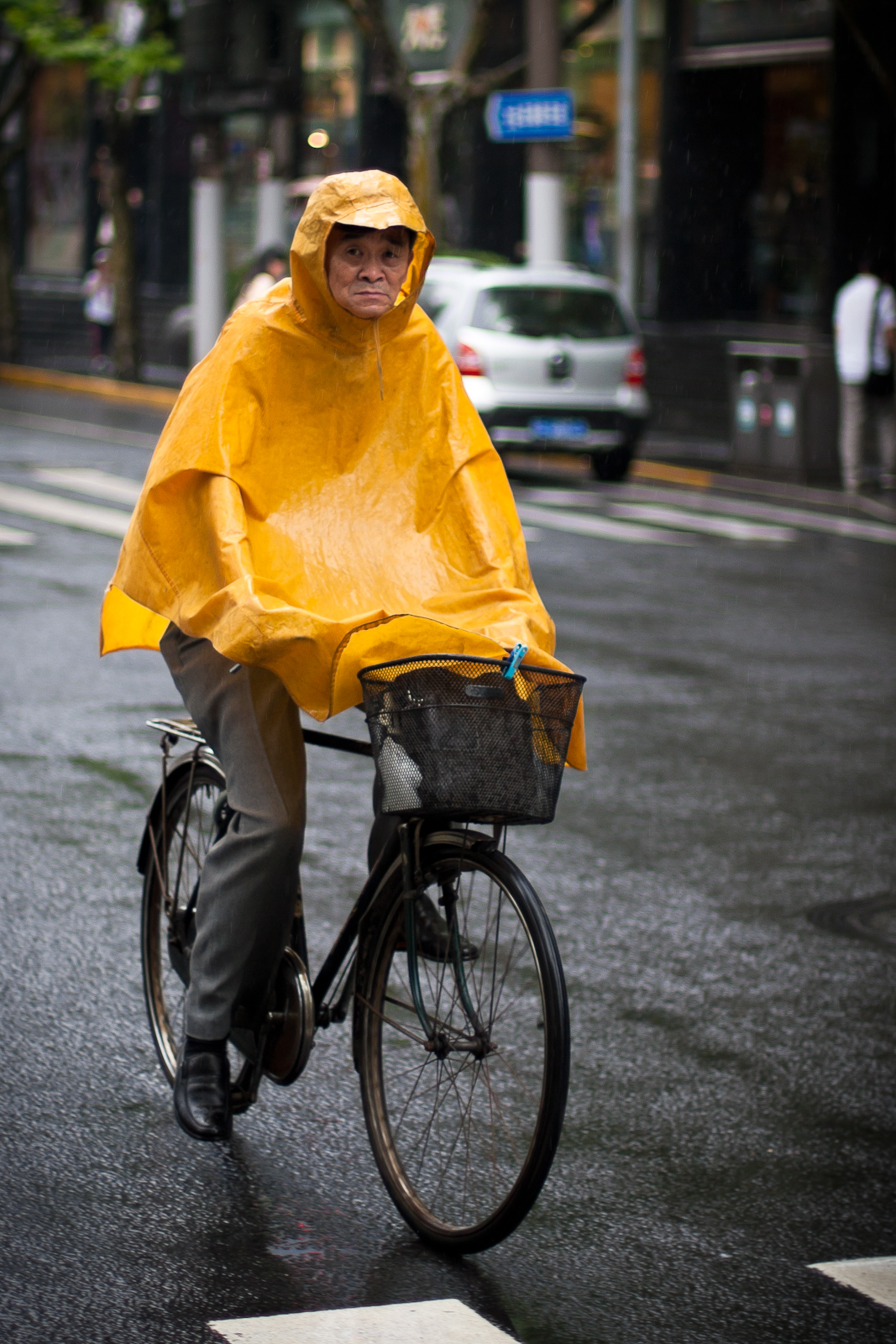 Cyclist wearing a yellow rain poncho in Shanghai, China.